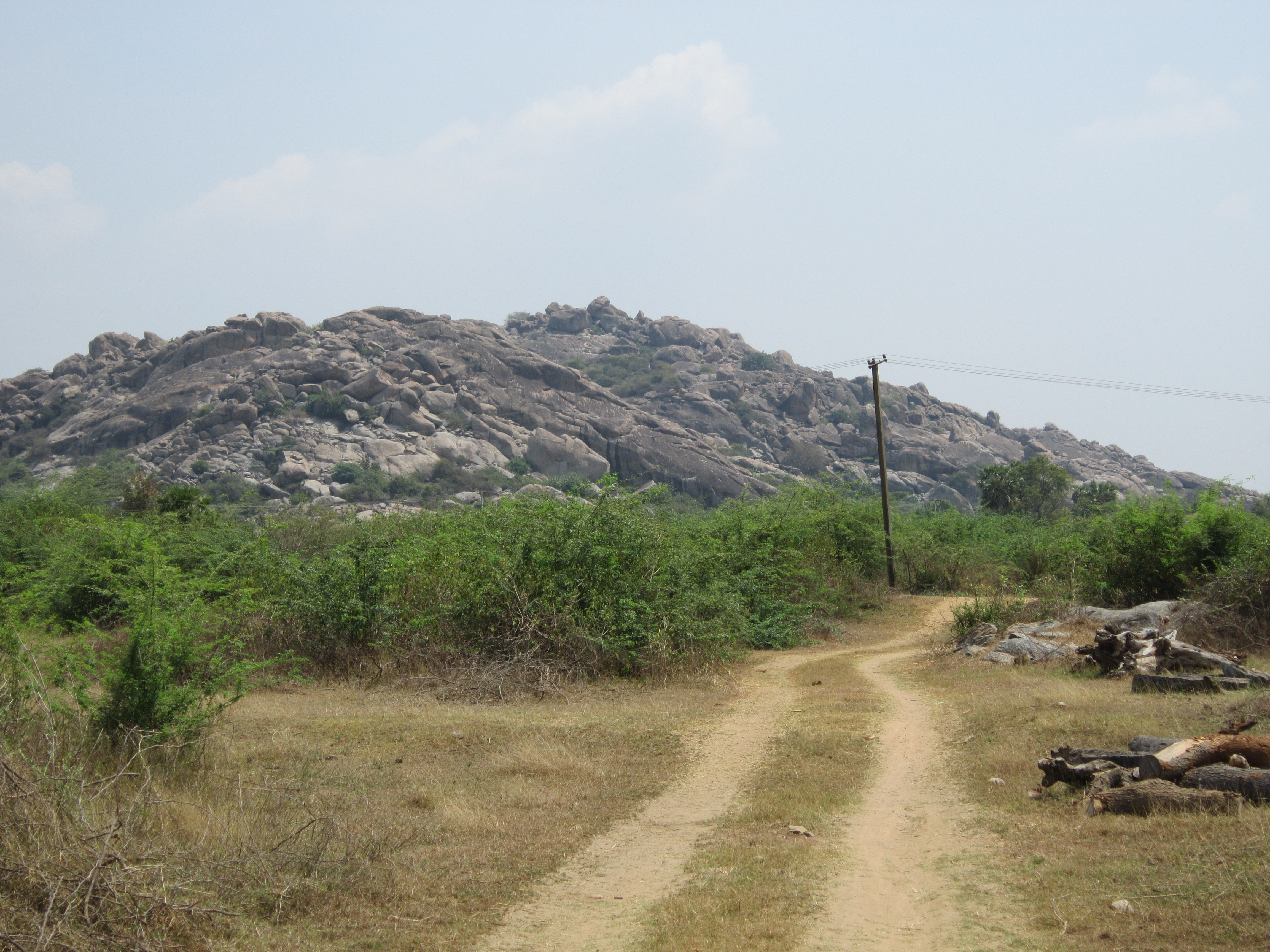 For wiki article